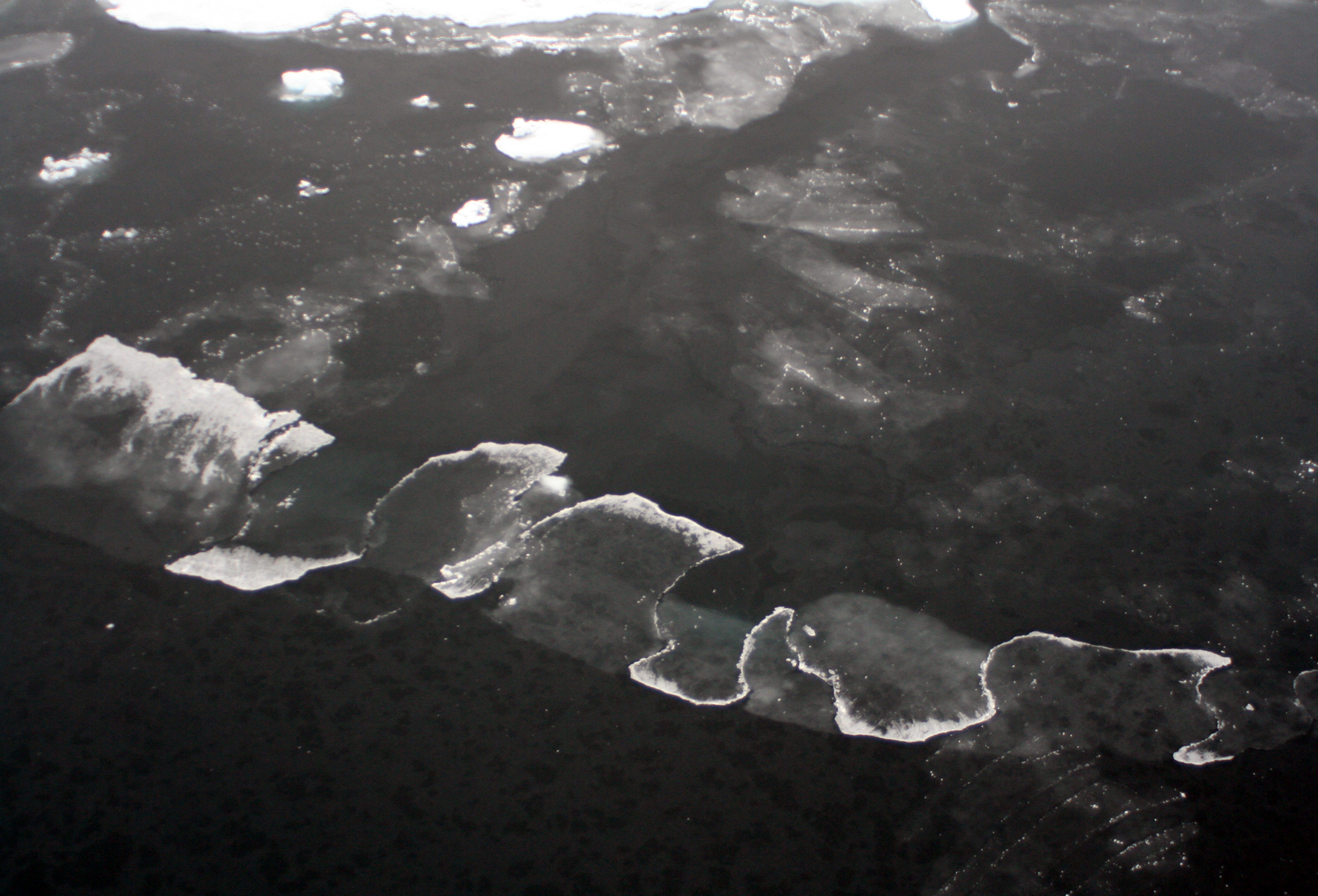 Nilas Sea Ice sea ice Buffin Bay Arctic. In calm water, the first sea ice to form on the surface is a skim of separate crystals which initially are in the form of tiny discs, floating flat on the surface and of diameter less than 2-3 mm. Each disc has its c-axis vertical and grows outwards laterally. At a certain point such a disc shape becomes unstable, and the growing isolated crystals take on a hexagonal, stellar form, with long fragile arms stretching out over the surface. These crystals also have their c-axis vertical. The dendritic arms are very fragile, and soon break off, leaving a mixture of discs and arm fragments. With any kind of turbulence in the water, these fragments break up further into random-shaped small crystals which form a suspension of increasing density in the surface water, an ice type called frazil or grease ice. In quiet conditions the frazil crystals soon freeze together to form a continuous thin sheet of young ice; in its early stages, when it is still transparent, it is called nilas. When only a few centimetres thick this is transparent (dark nilas) but as the ice grows thicker the nilas takes on a grey and finally a white appearance. The image was taken from an icebreaker.